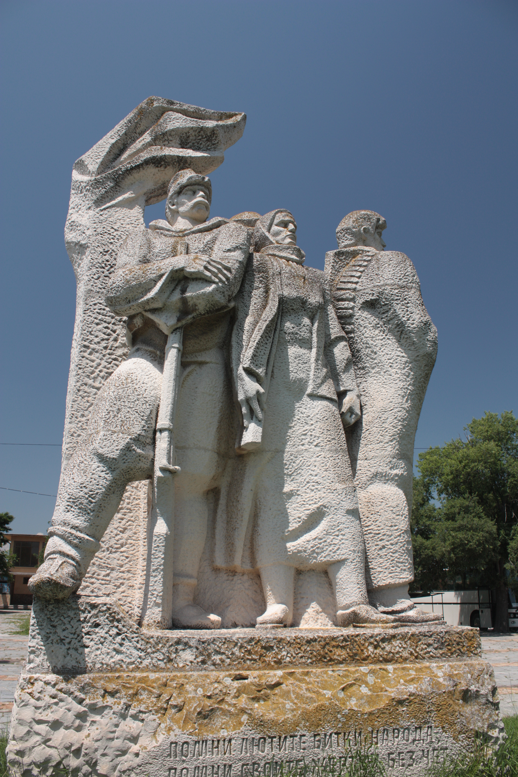 Partisan statue in Golyam Chardak, Bulgaria